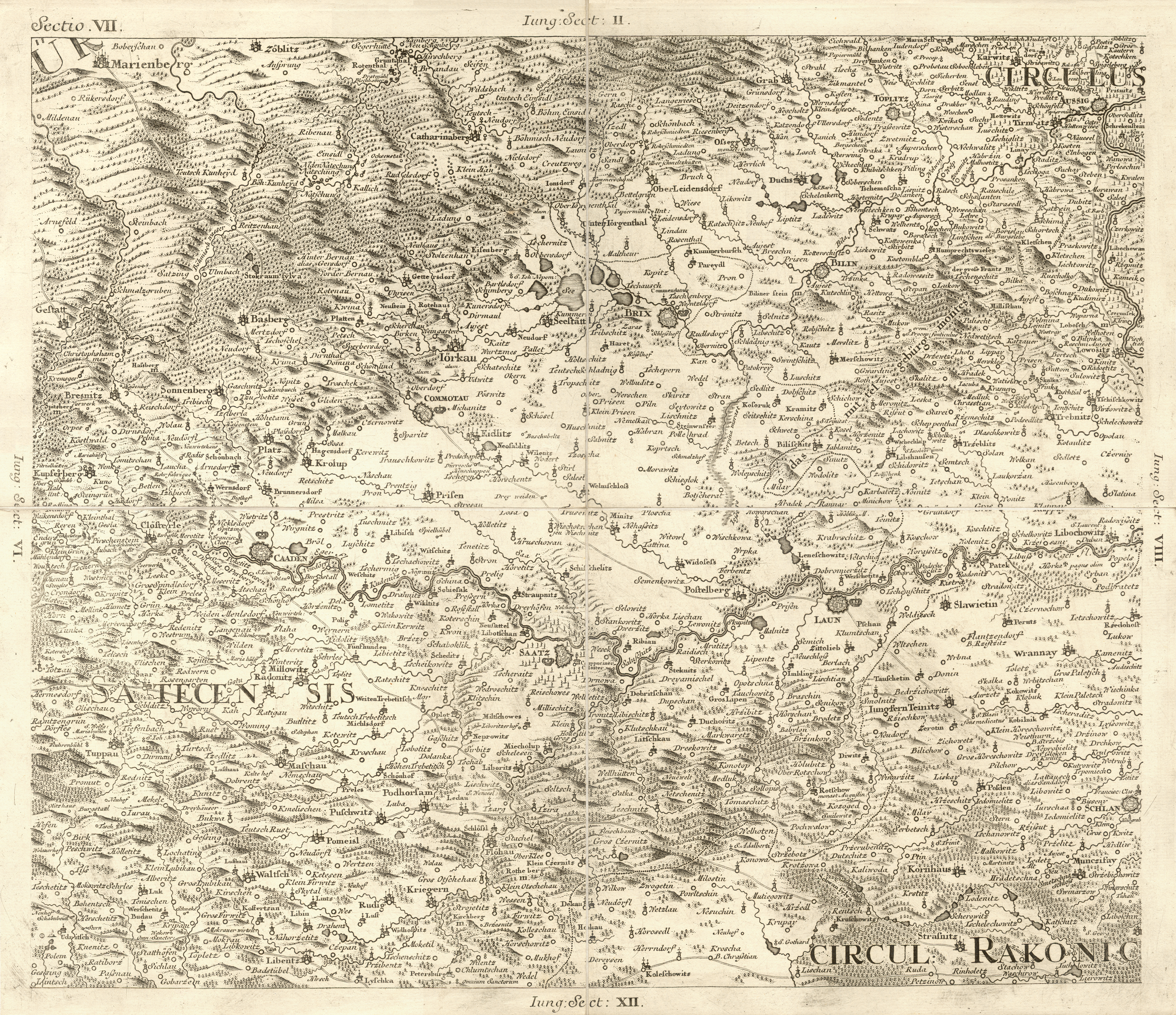 Müller's map of Bohemia.